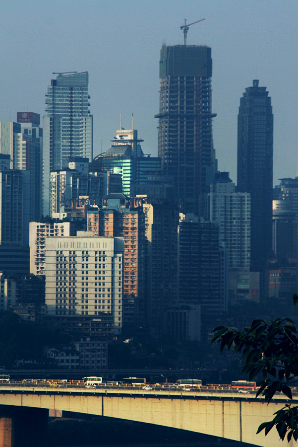 Yingli International Financial Centre under construction